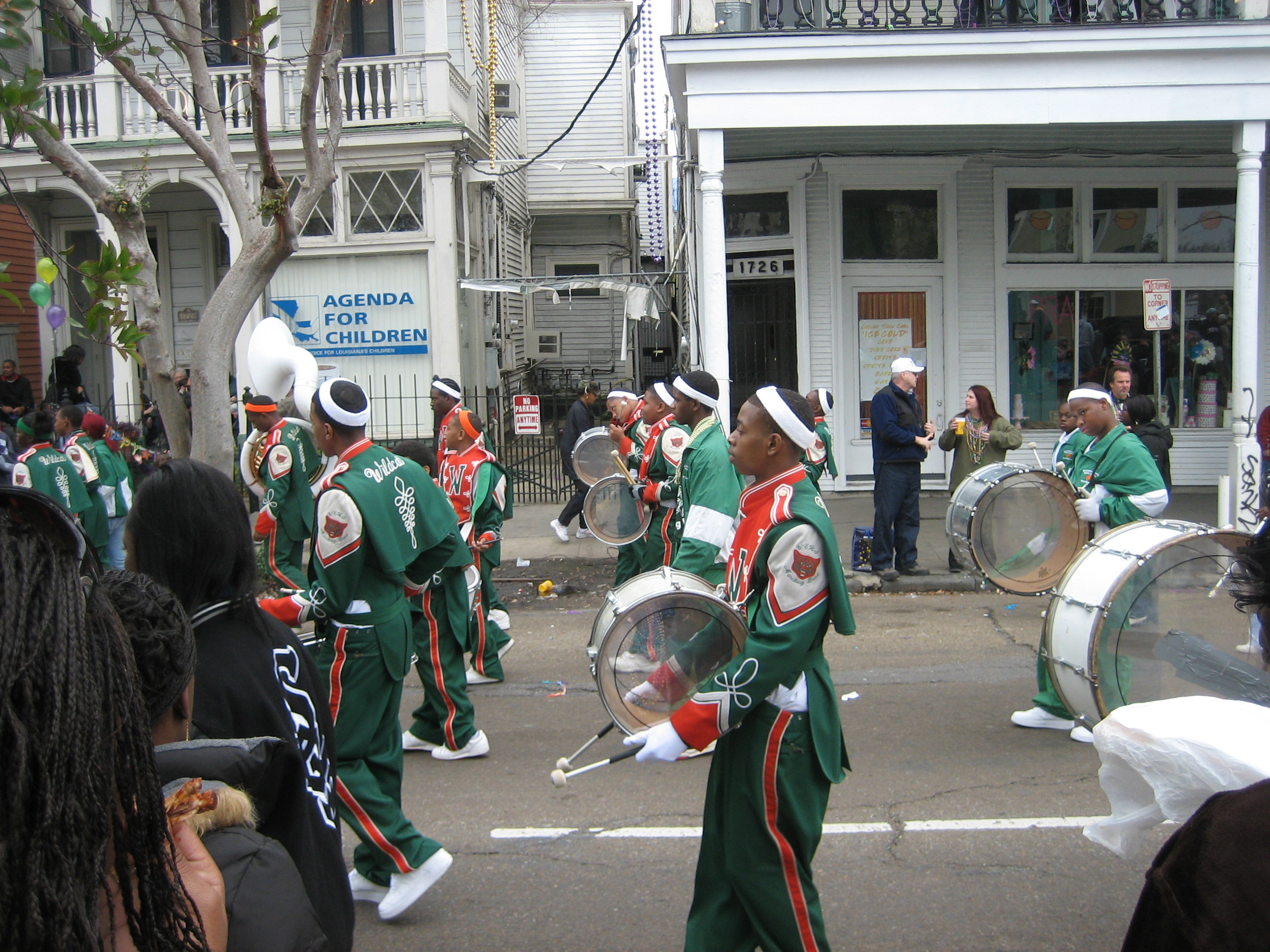 New Orleans: Krewe of Carrollton, carnival parade on St. Charles Avenue. Drummers with school marching band.